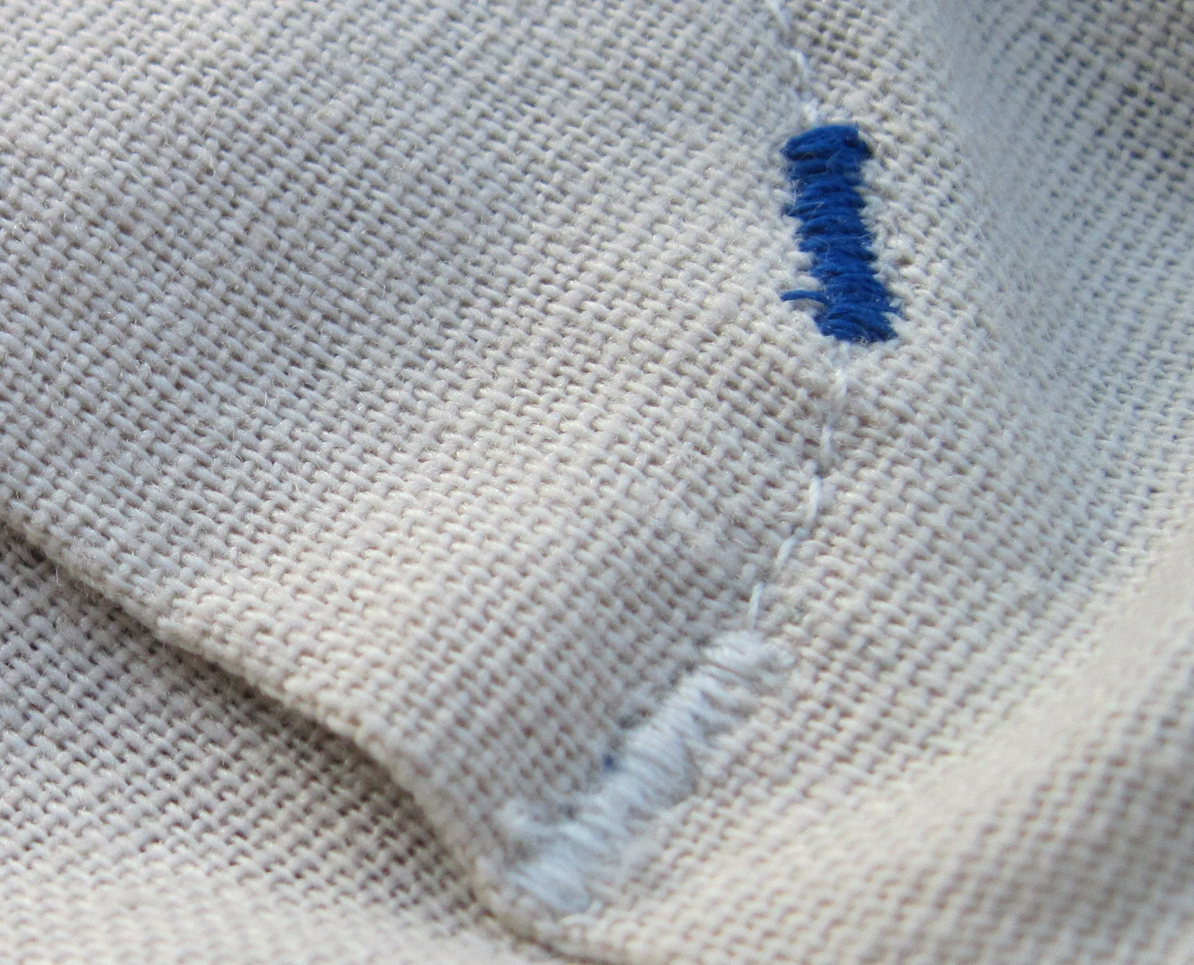 Bartack stitches on a piece of cloth.